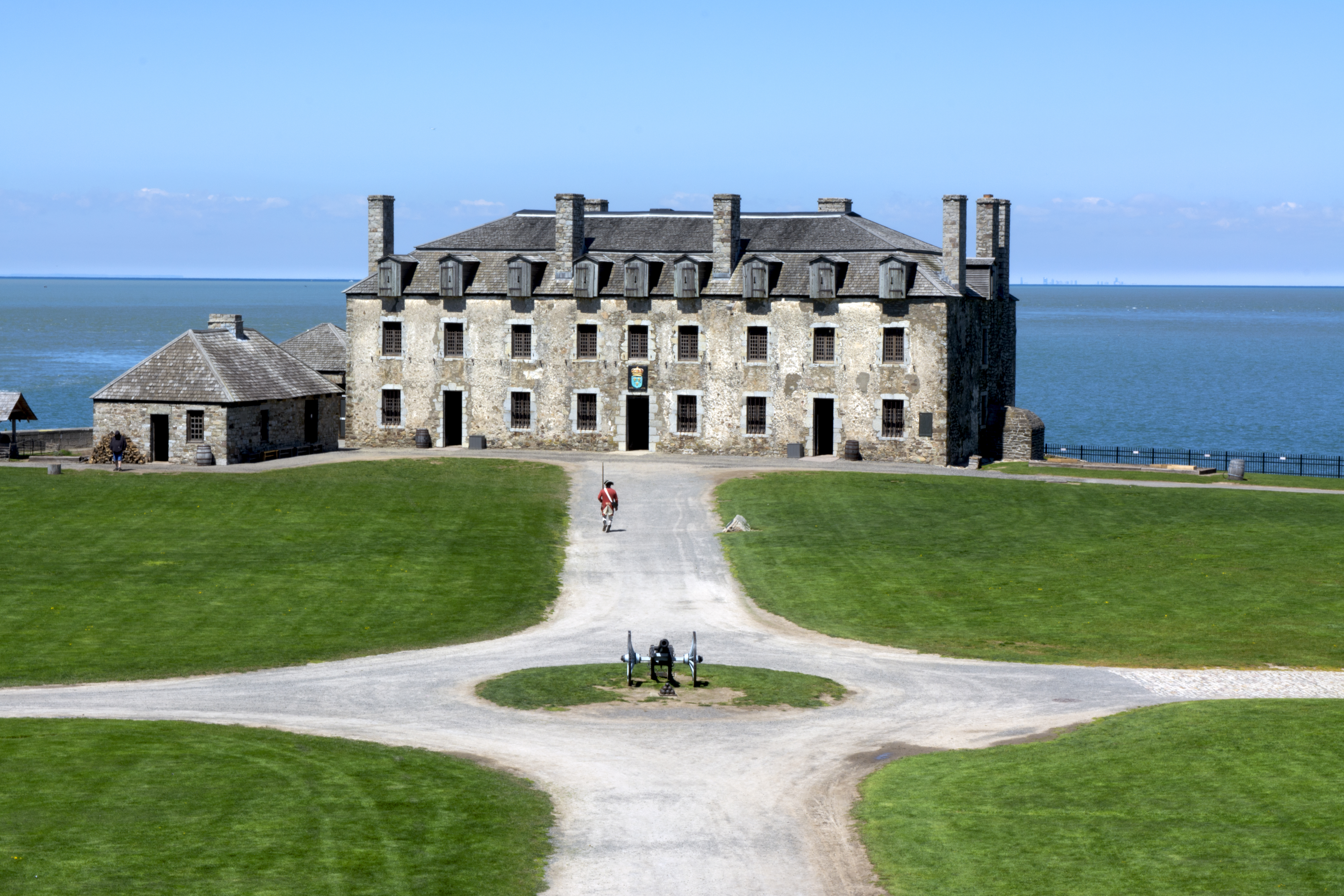 The complete front view of Fort Niagara with Bakery on its right side.